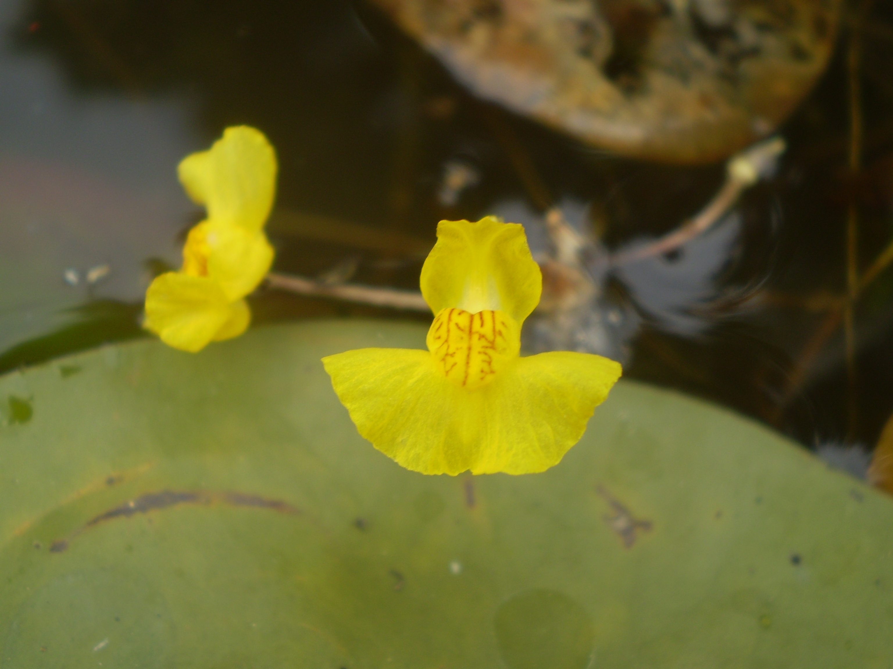 Utricularia australis (InuTanukimo)